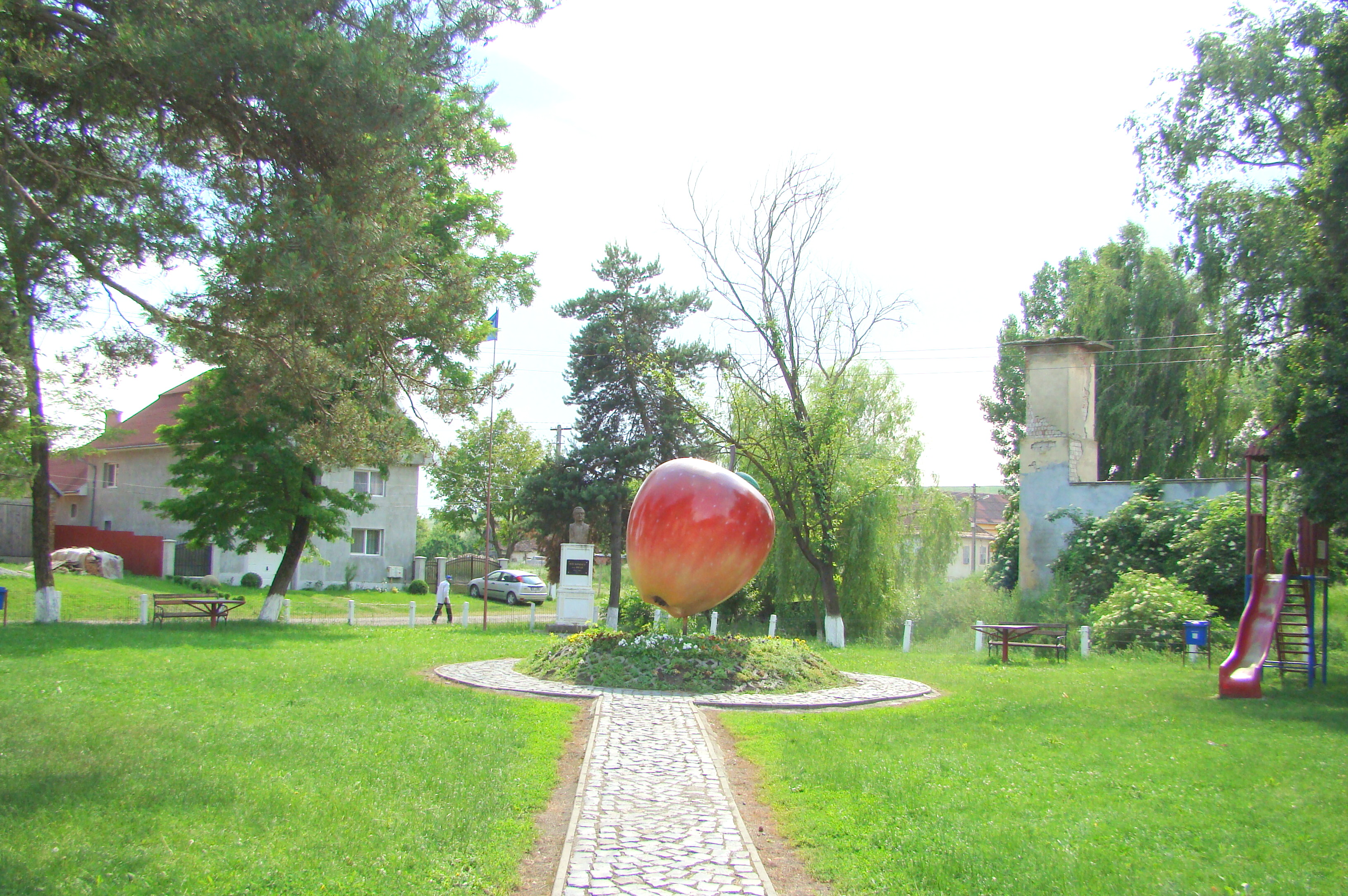 Batoș, Mureș county, Romania